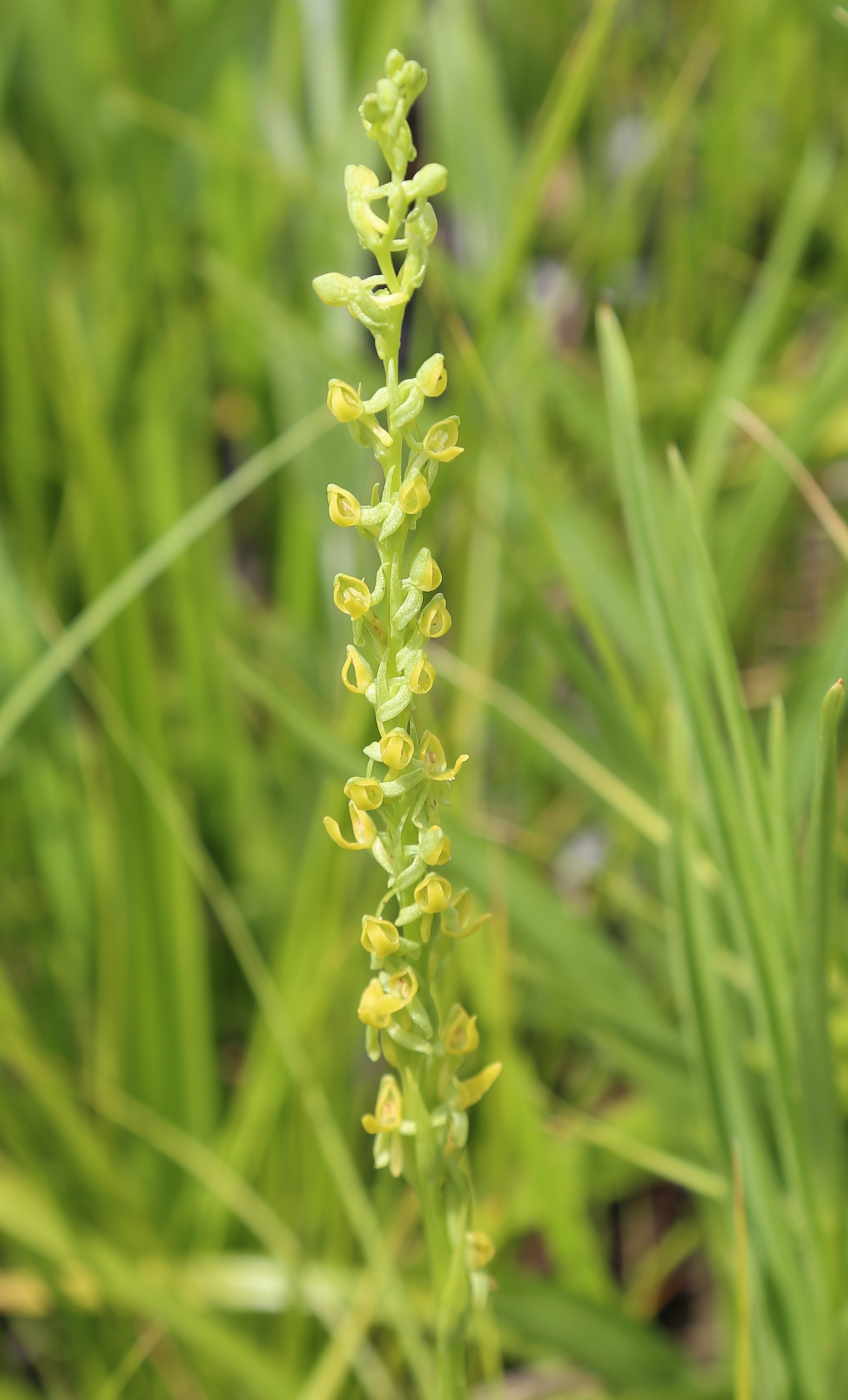 Yellow rein-orchid (Platanthera tescamnis), single stalk of blooms in moist meadow. At 7,000 ft (2,100 m) in Swall Meadows, Mono County CA, Eastern Sierra Nevada.